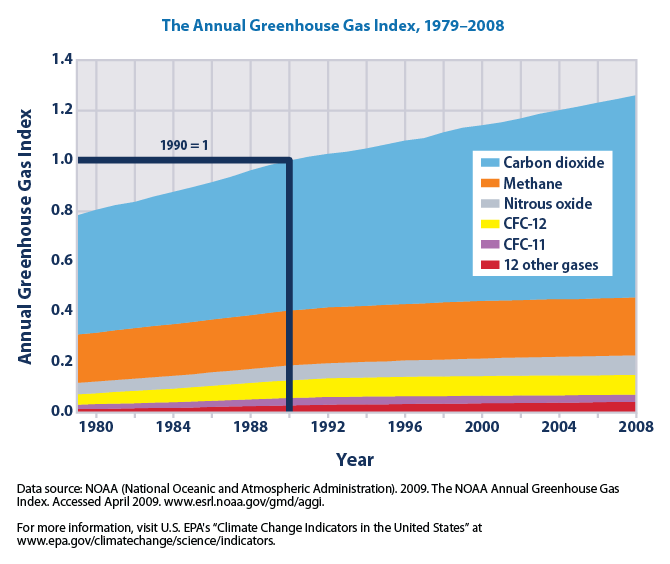 The following description is based on the cited source - US Environmental Protection Agency (EPA, 2010): This graph shows changes in the annual greenhouse gas index (AGGI) between 1979 and 2008. The AGGI measures the levels of greenhouse gases in the atmosphere based on their ability to cause changes in the Earth's climate. It includes 17 greenhouse gases - among these are carbon dioxide, methane, chlorofluorocarbons (CFCs), and nitrous oxide. Changes in the AGGI reflect changes in the radiative forcing (i.e., the warming effect) of greenhouse gases in the atmosphere. EPA (2010): "In 2008, the Annual Greenhouse Gas Index was 1.26, an increase in radiative forcing of 26 percent over 1990 [...] Carbon dioxide accounts for approximately 80 percent of this increase. Of the five most prevalent greenhouse gases shown in [the graph], carbon dioxide and nitrous oxide are the only two whose contributions to radiative forcing continue to increase at a steady rate. By 2008, radiative forcing due to carbon dioxide was 35 percent higher than in 1990. Although the overall Annual Greenhouse Gas Index continues to grow, the rate of increase has slowed somewhat over time. This change has occurred in large part because methane concentrations have remained relatively steady since 1990, and CFC concentrations are declining because most of their uses have been banned."